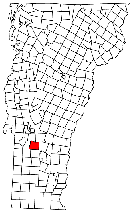 Map of Vermont towns with Wallingford highlighted